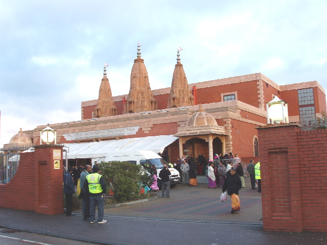 Hindu Temple, Kenton, Harrow. Shree Kutch Satsang Swaminarayan temple [Mandir] London, affiliated to Shree Swaminarayan temple at Bhuj Kutch, India. A major temple festival was in progress, the Harrow temple Patotsav. See the temple website